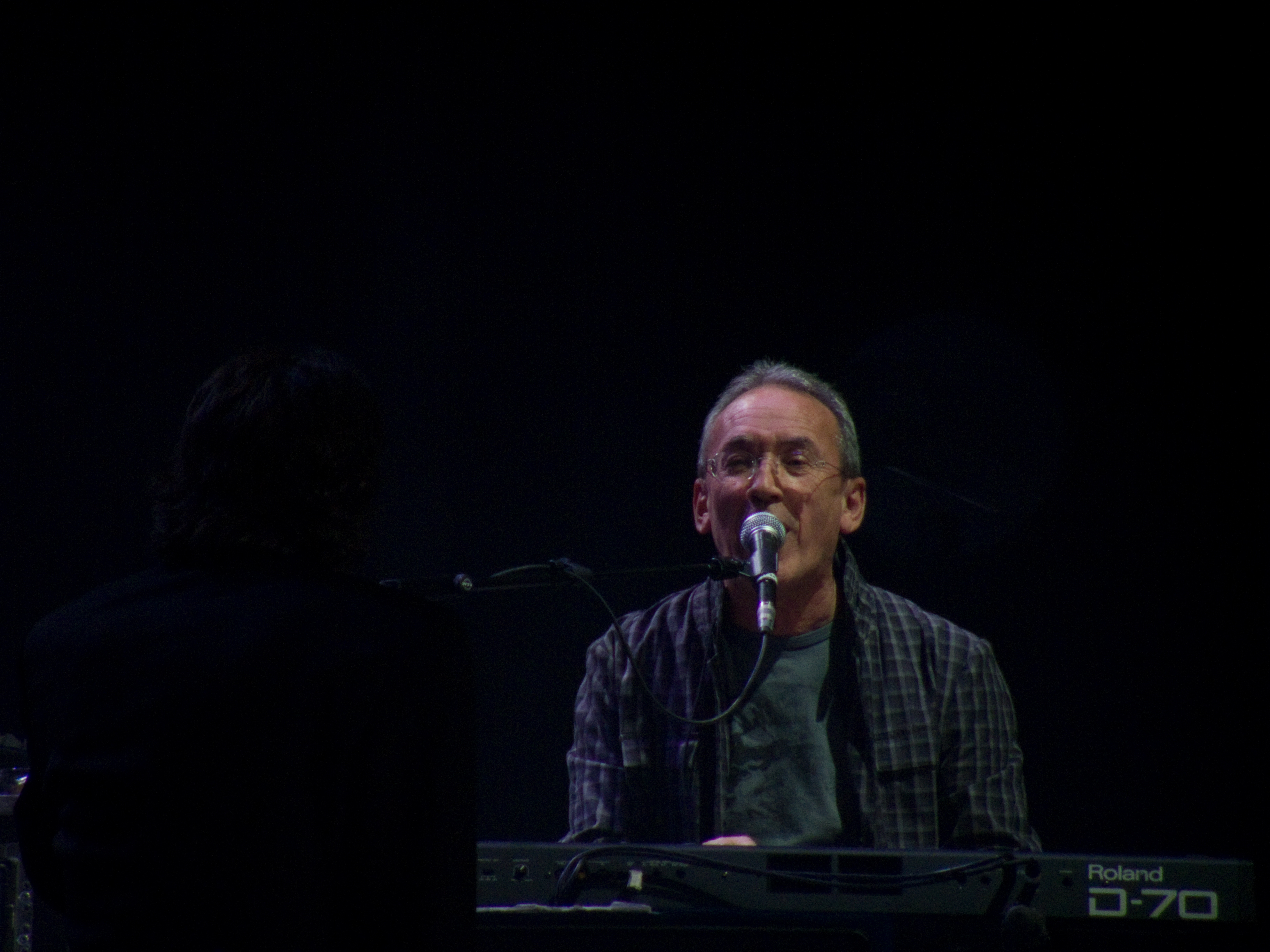 Antonio García de Diego during a concert of the "Vinagre y rosas" Tour in Madrid (Spain)